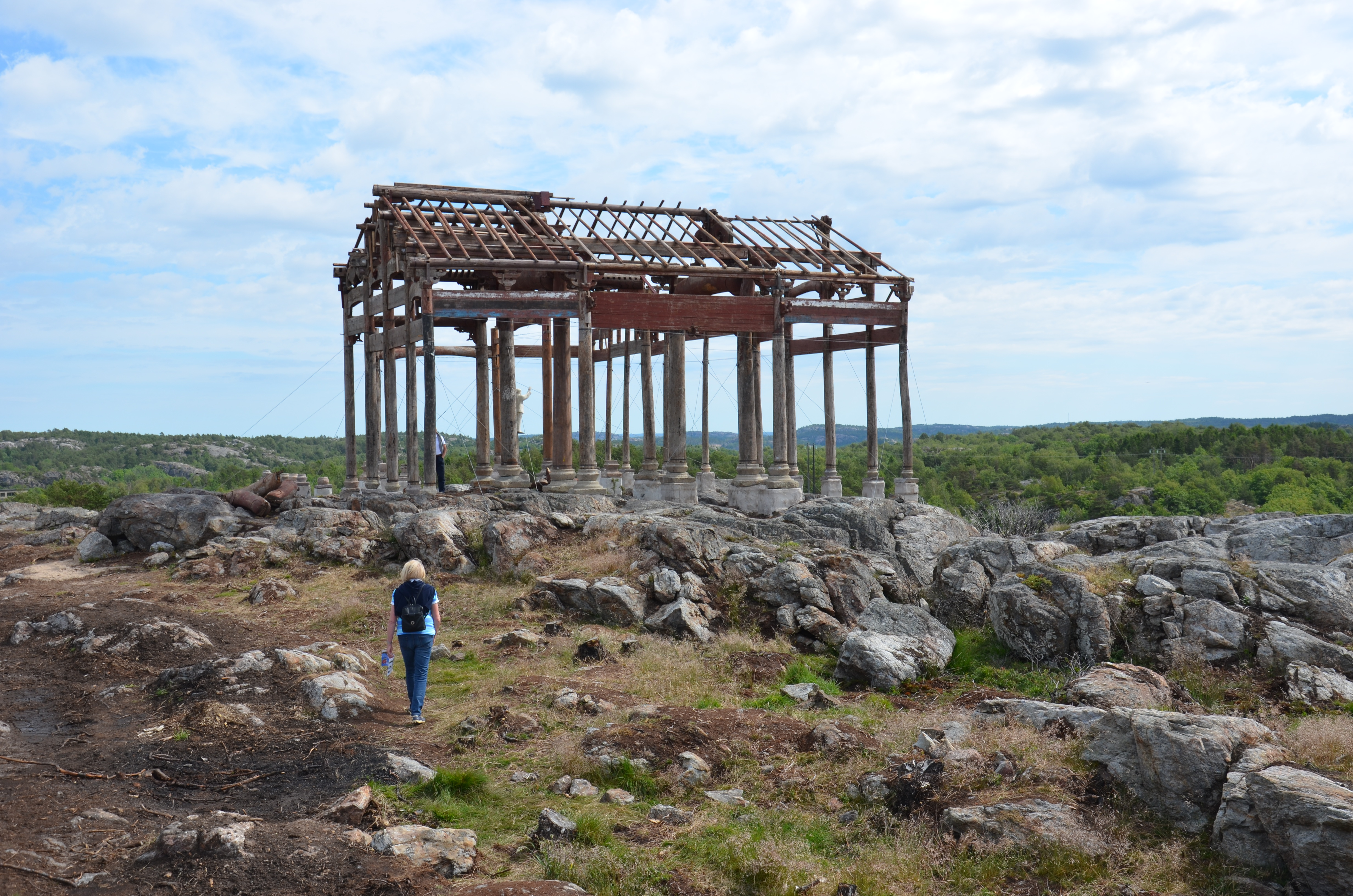 Zhang Huan's Spread the sunshine over the earth, old wooden temple, Pilane sculpture park, Sweden